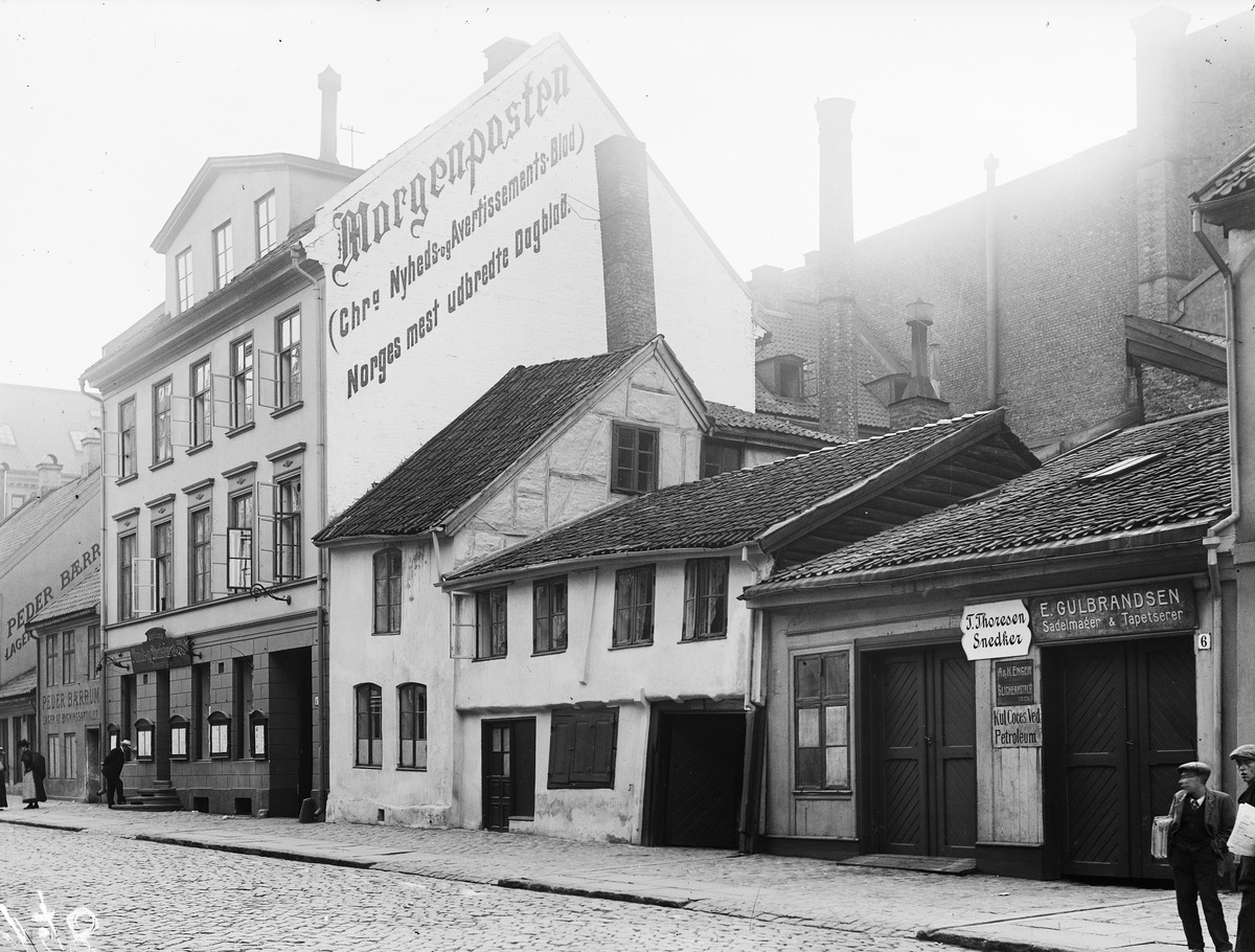 Nedre Vollgate 6-10, street in Oslo, Norway ca 1900.